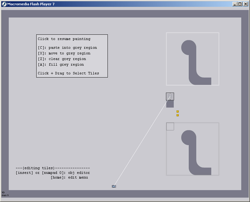 this is a screenshot from the editor in Metanet Software Inc's windows/mac/linux game, N. It was taken by Mare Sheppard (of Metanet). More info on the game can be found here: or